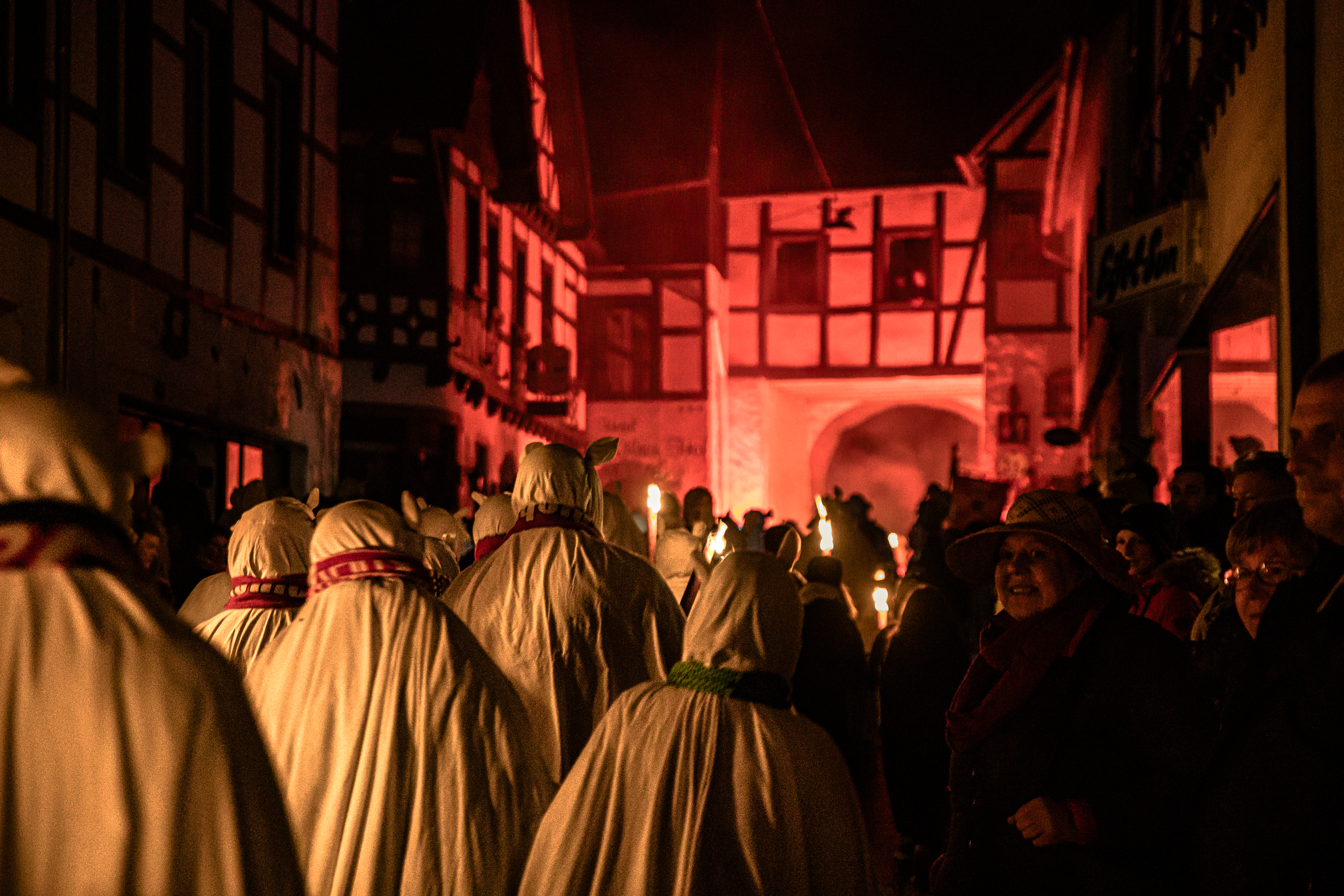 Ghost Carnival Procession in Blankenheim, 2020